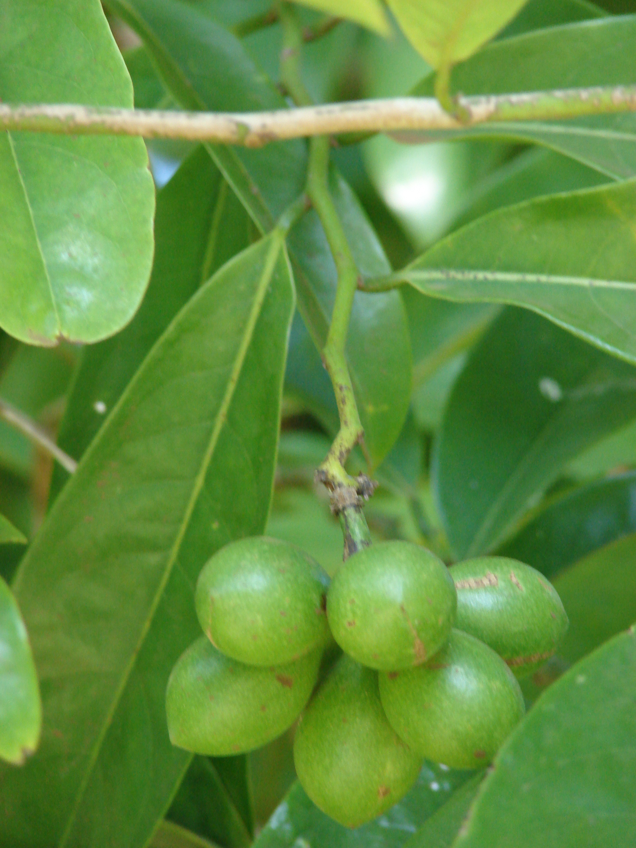 Artabotrys hexapetalus (leaves and fruit). Location: Maui, Enchanting Floral Gardens of Kula